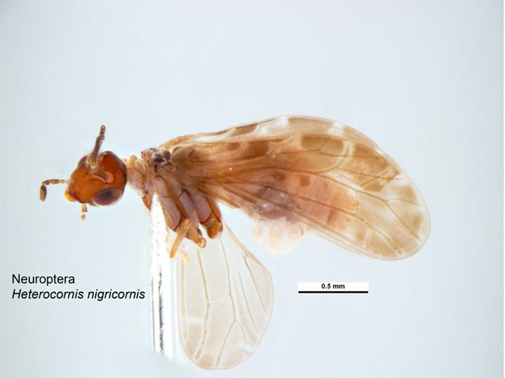 Heteroconis nigricornis